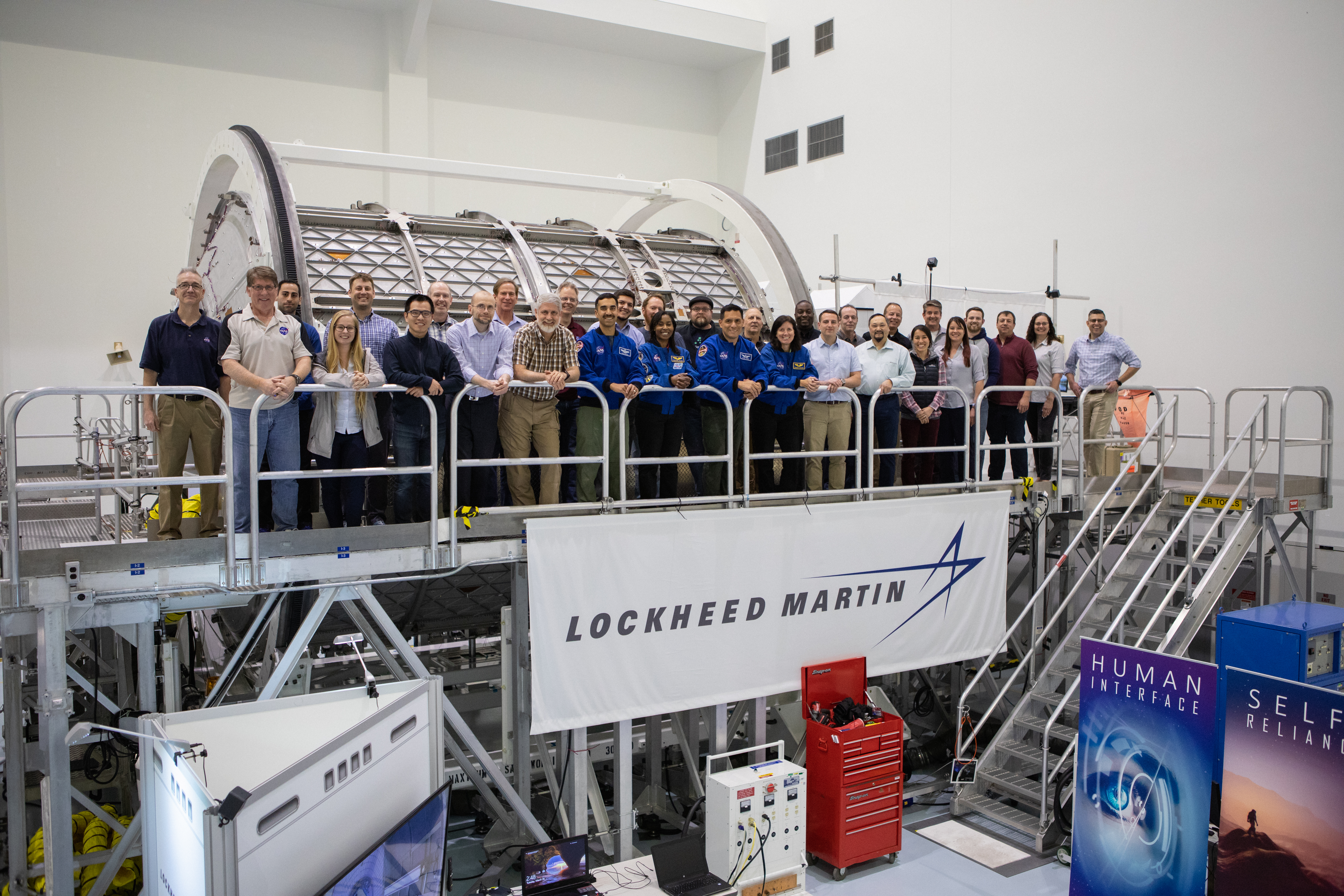 NASA KSC employees and astronauts pose for a group photo while standing on the platform rig of the Lunar Orbital Platform-Gateway space station module training mock-up in the SSPF at Kennedy Space Center.